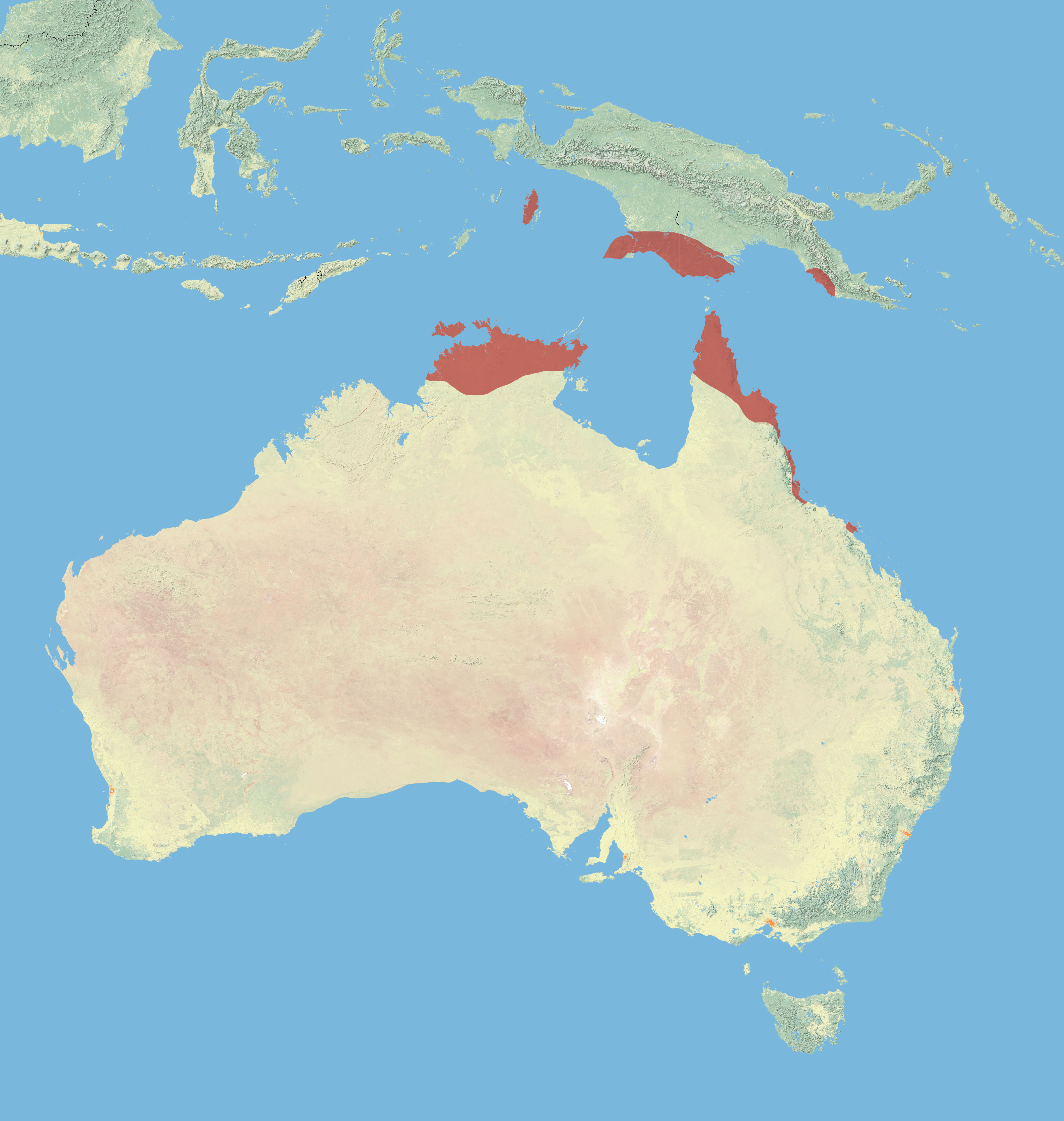 The Distribution of the Red-cheeked Dunnart According to the IUCN